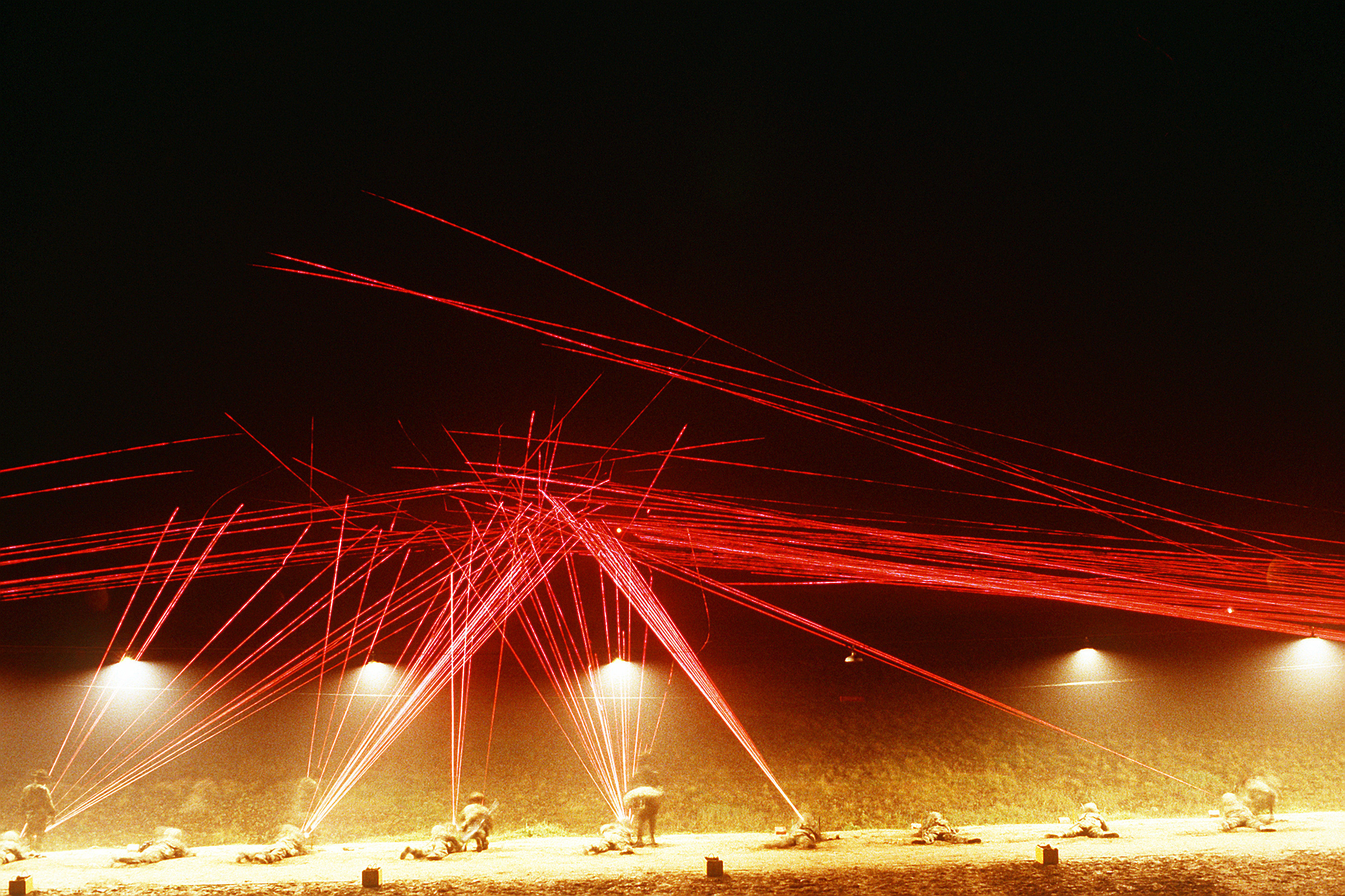 Tracer fire lights up the night sky as Marine recruits engage targets during a live-fire exercise.